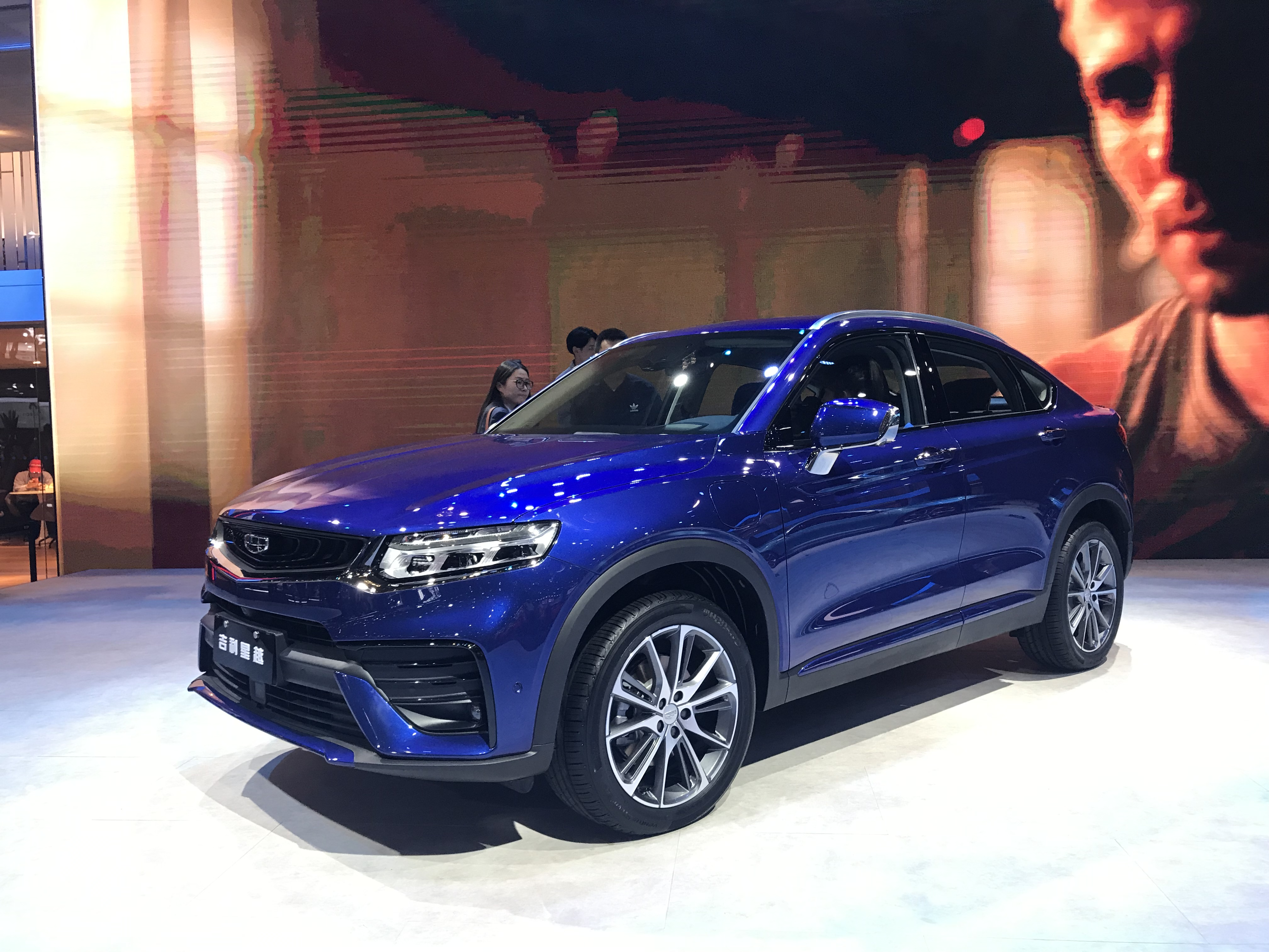 Geely Xingyue